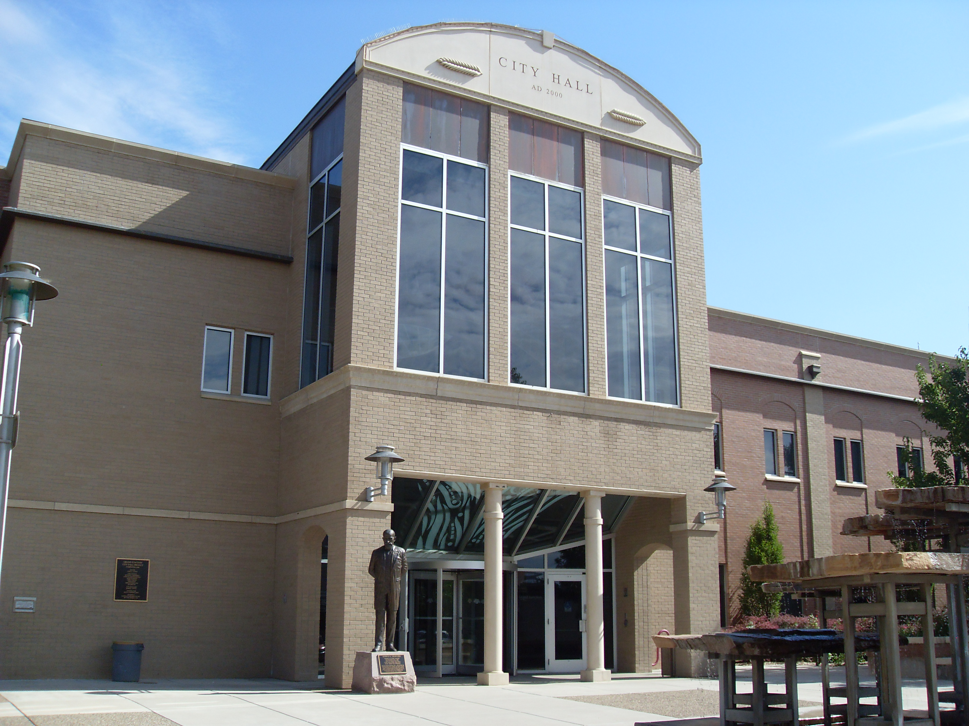 Grand Junction Cityhall with statue of the city founder George A. Crawford